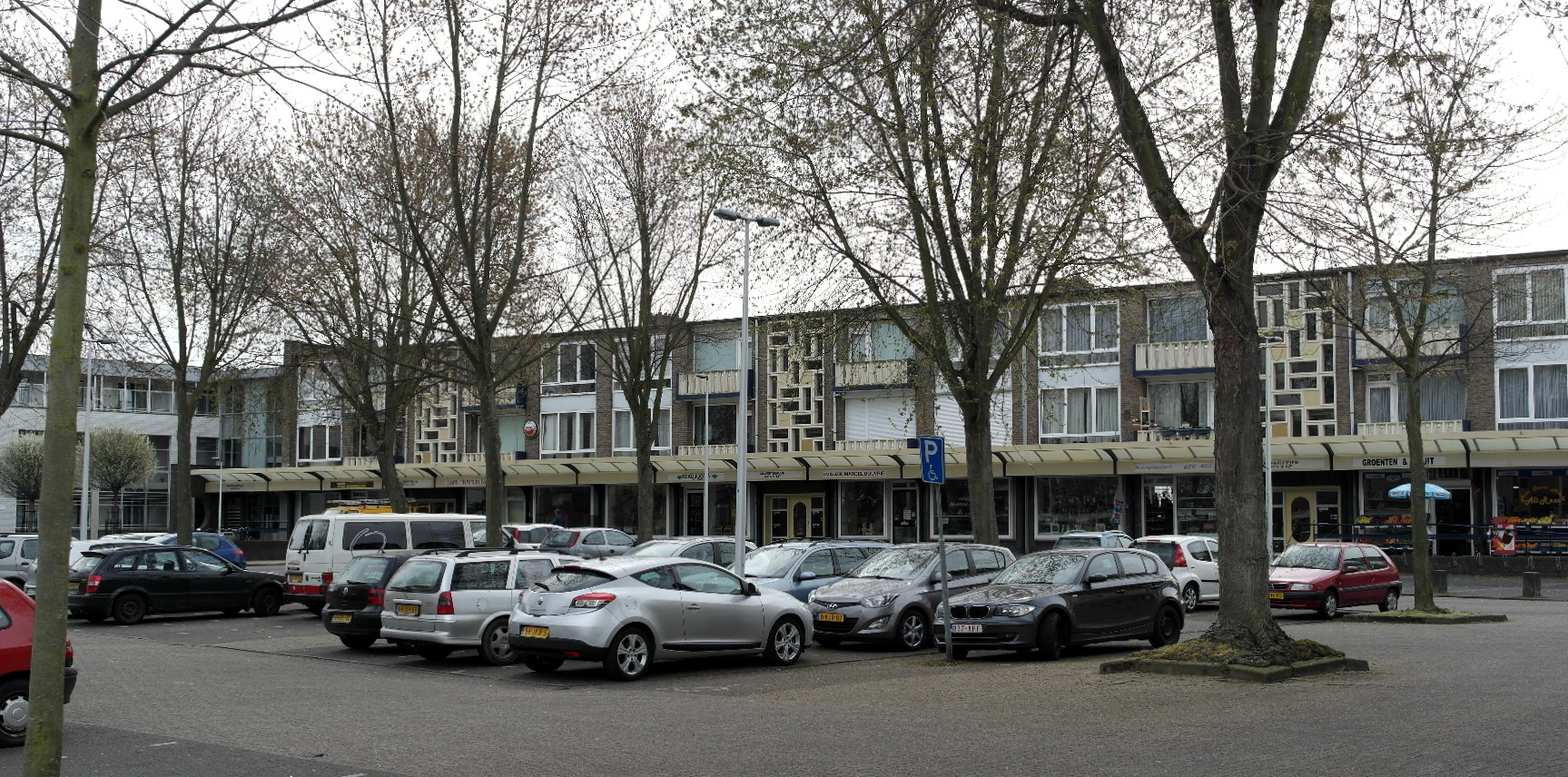 Maastricht, the Netherlands. Apartment blocks above shops in the neighbourhood of Malpertuis, designed in 1958 by J.A.M. Kurvers.